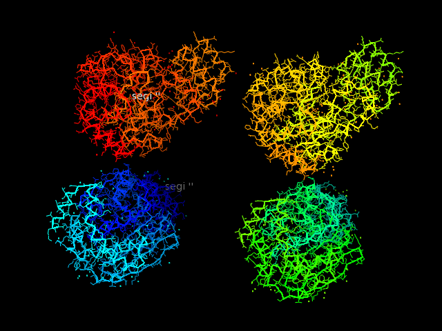 3D rendering of the Anthranilate phosphoribosyltransferase enzyme